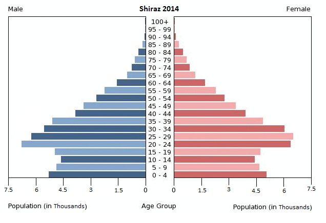 population pyramid of shiraz as of 2011